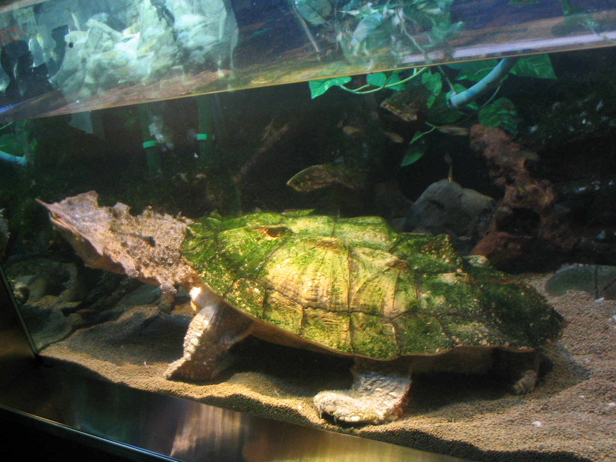 Mata mata turtle withdraw from english wikipedia User:Wng: "Took this picture personally. Donating it to PD."